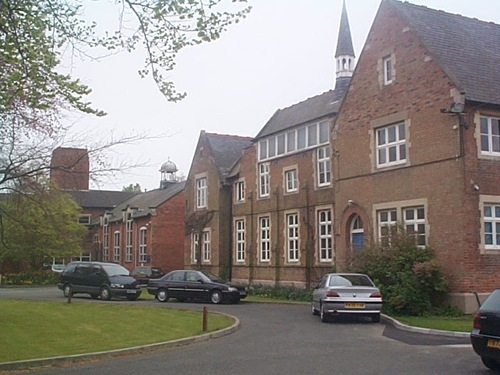 pic